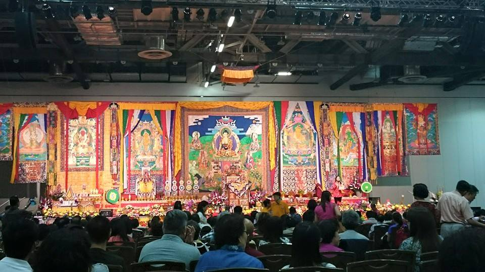 A puja held at the Gaden Shartse Dro-Phen Ling, a Tibetan Gelug Buddhist centre in Singapore.